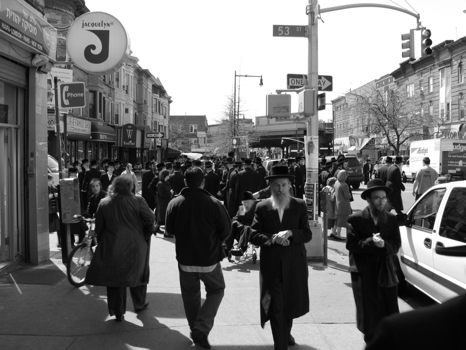 Borough Park, Brooklyn